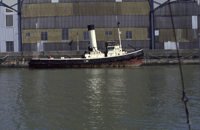 TID 164, Chatham Historic Dockyard WWII vintage steam tug now owned by the Medway Maritime Trust and based at Chatham Historic Dockyard. Maintained by the Friends of TID164